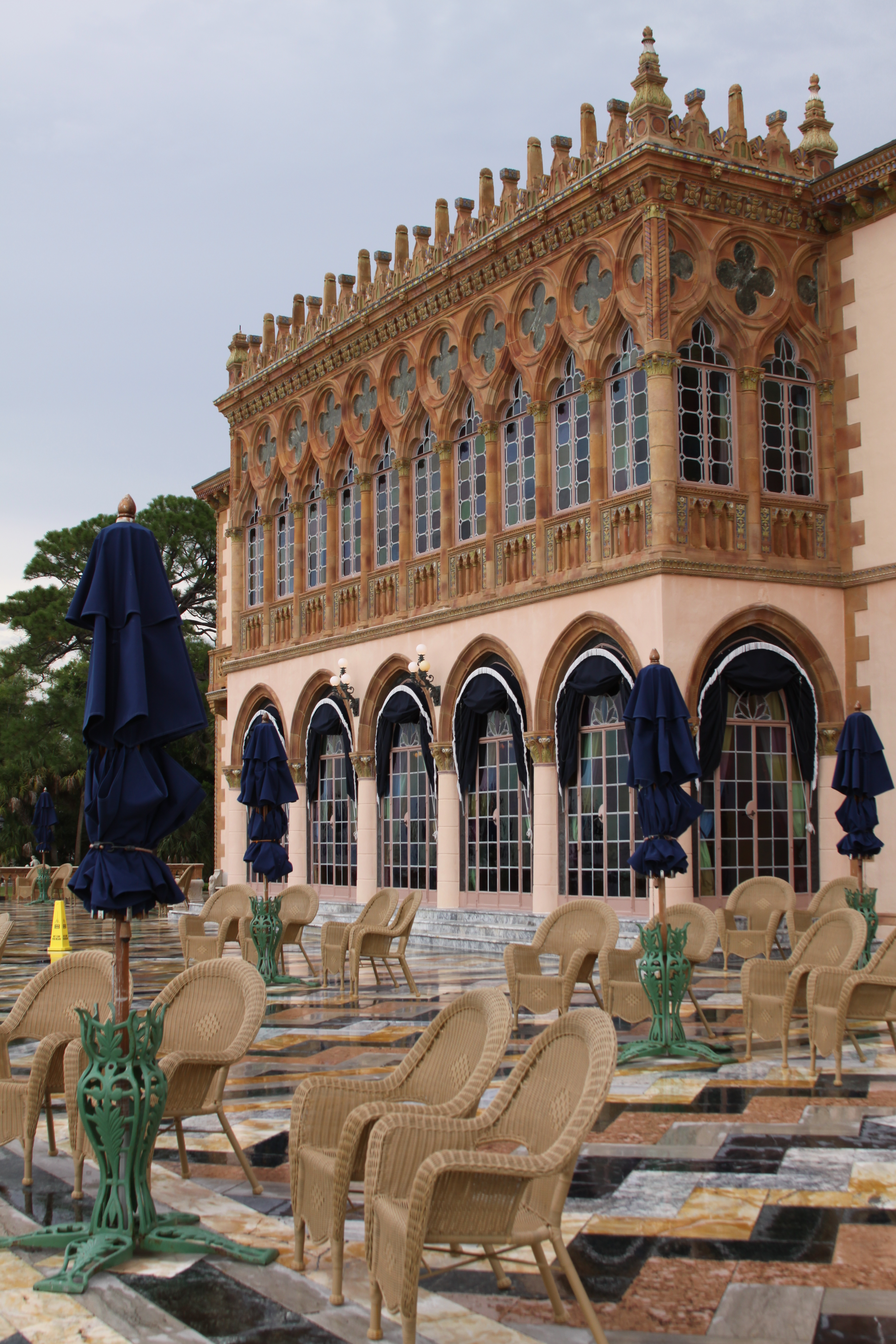 Cà d'Zan west façade. Sarasota, Florida.